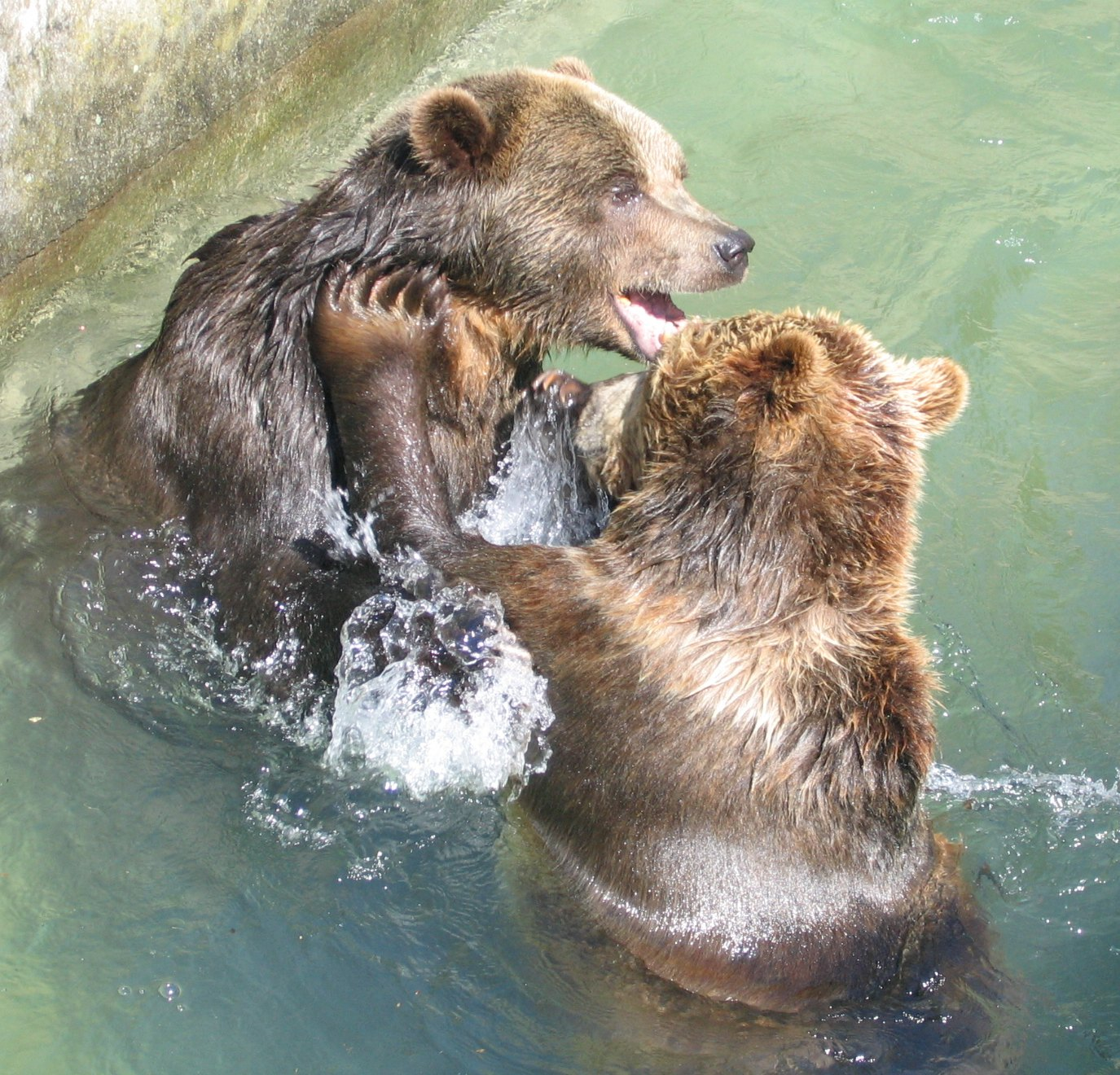 European Brown bear, Bojnice Zoo, 2005